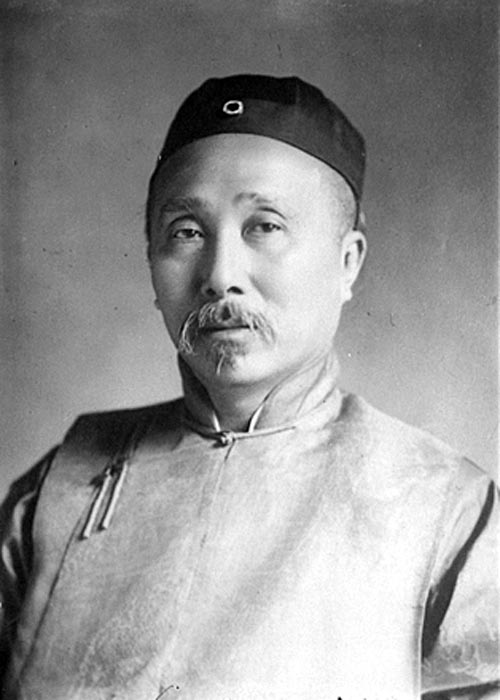 Ng Choy (Chinese: 伍才; referred to otherwise as Wu Tingfang based on 伍廷芳, Pinyin: Wŭ Tíngfāng, Wade-Giles: Wu T'ing-fang) (1842 in Singapore – 23 June 1922) was a Chinese diplomat and politician who served as Minister of Foreign Affairs and briefly as Acting Premier during the early years of the Republic of China.